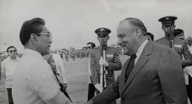 From 27 to 30 January 1980, Prime Minister Robert Muldoon went on a state visit to the Philippines. The purpose of the trip was to expand New Zealand’s relations with the Philippines, which was considered an important member of ASEAN and a country of growing significance to New Zealand. The photograph above shows Muldoon’s arrival at Manila International Airport, where he was greeted by Philippine President Ferdinand Marcos. Later that day, Muldoon and Marcos signed a five year energy accord designed to reduce Philippine dependence on imported oil. This was followed by a state dinner in Muldoon’s honour. The following day, Muldoon spoke at the Annual Conference of the Pacific Area Travel Association (PATA). He delivered the inaugural address to 2000 tourism industry delegates from approximately 50 countries. Muldoon also visited the ASEAN-New Zealand Afforestation Project in Mayantoc, Tarlac.